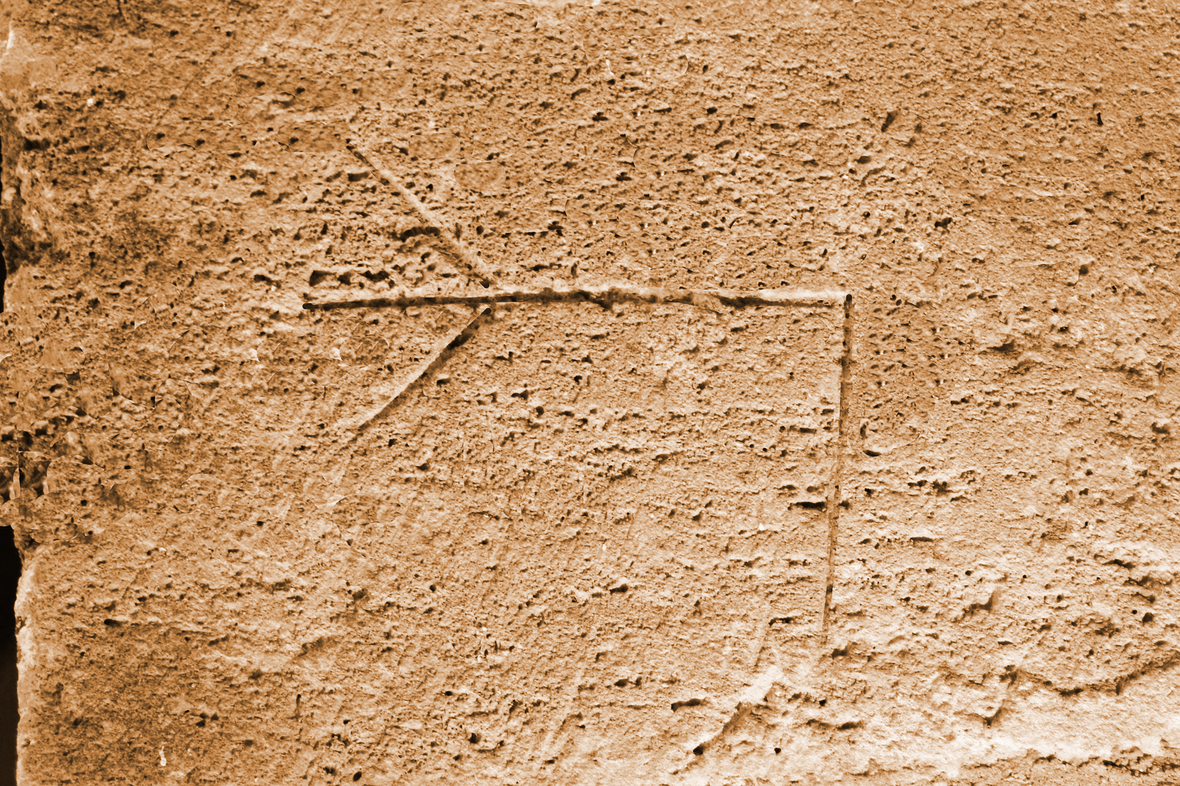 Stonecutter mark in Sª Mª de Óvila monastery, TRILLO (Guadalajara), Spain. Romanesque s. XII.